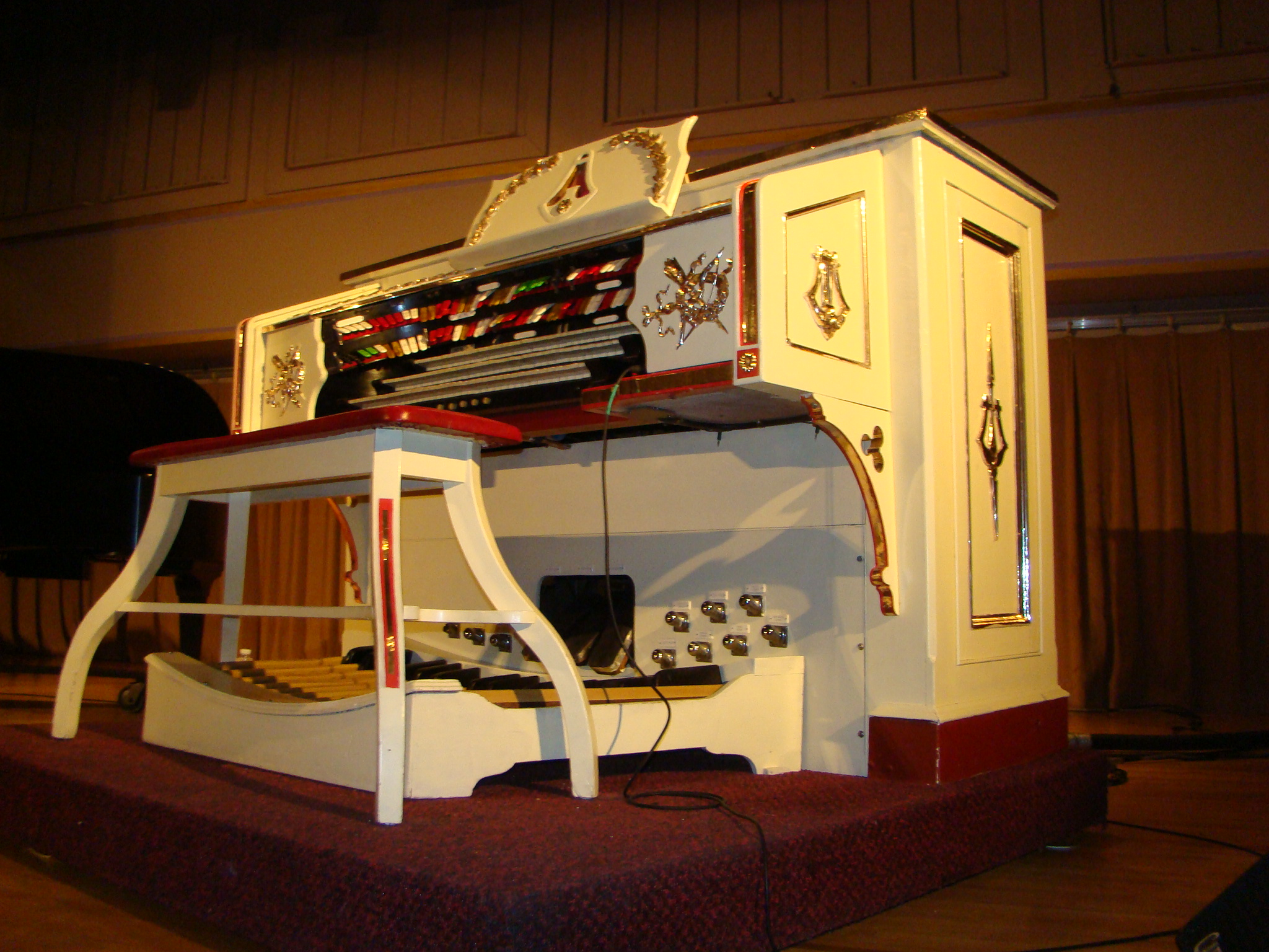 A Moller pipe organ, located at the Crystal Theatre, In Crystal Falls, Michigan, USA